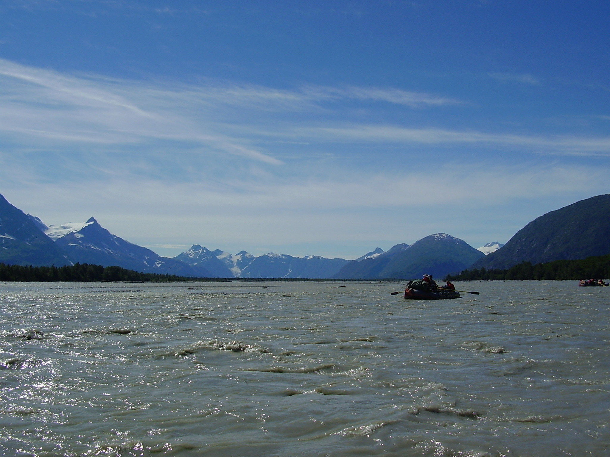 A landscape photo of the confluence area of the Alsek and Tatshenshini rivers with an inflatable river raft in the distance.